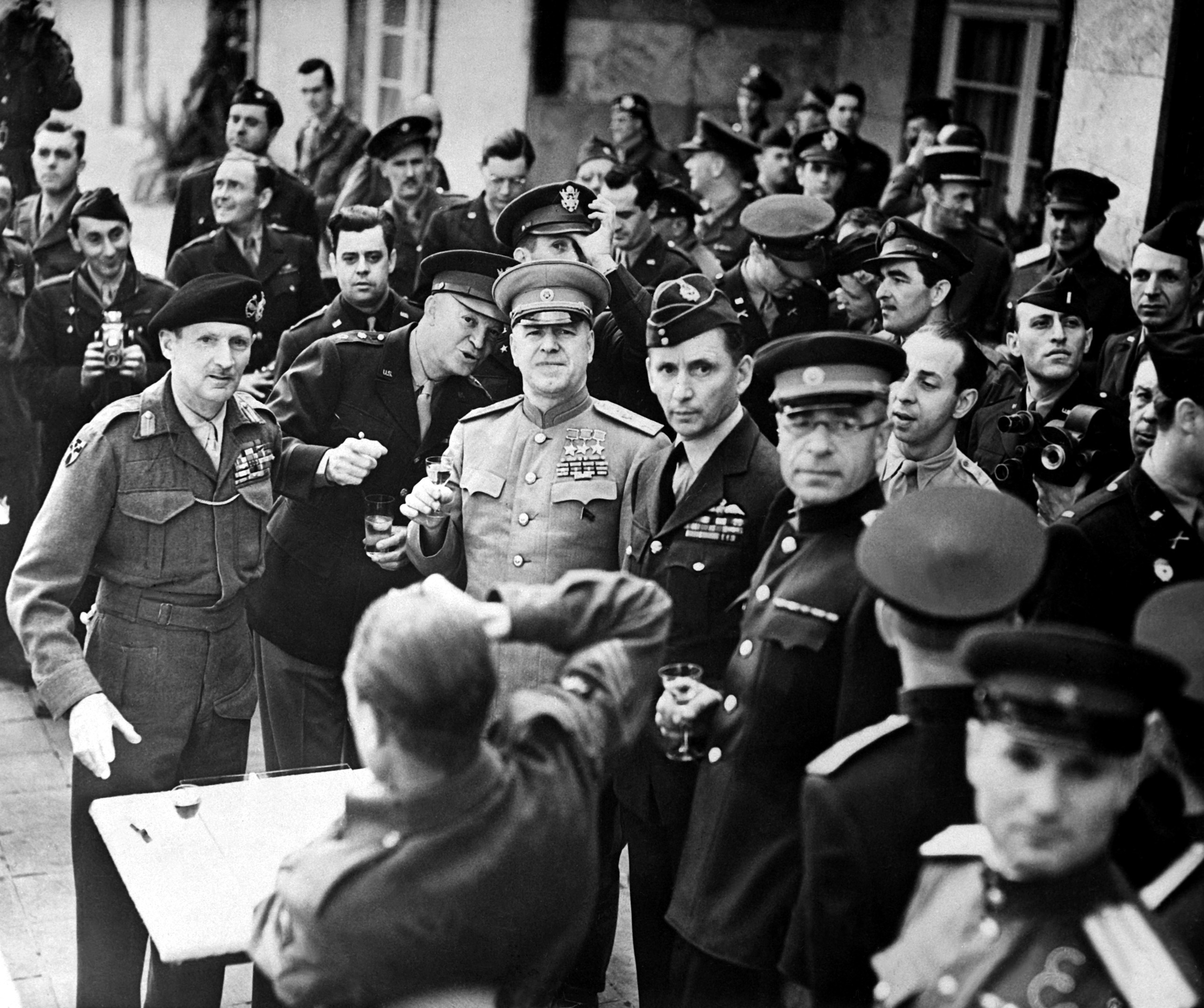 Marshal Zhukov decorates Field Marshal Montgomery with the Russian Order of Victory. Allied chiefs who attended the cermony at Gen. Eisenhower's Headquarters at Frankfurt are about to drink a toast. Center from left to right: Field Marshal Montgomery, Gen. Dwight Eisenhower, Marshal Zhukov, Air Chief Marshal Sir Arthur Tedder. ID: HD-SN-99-02756